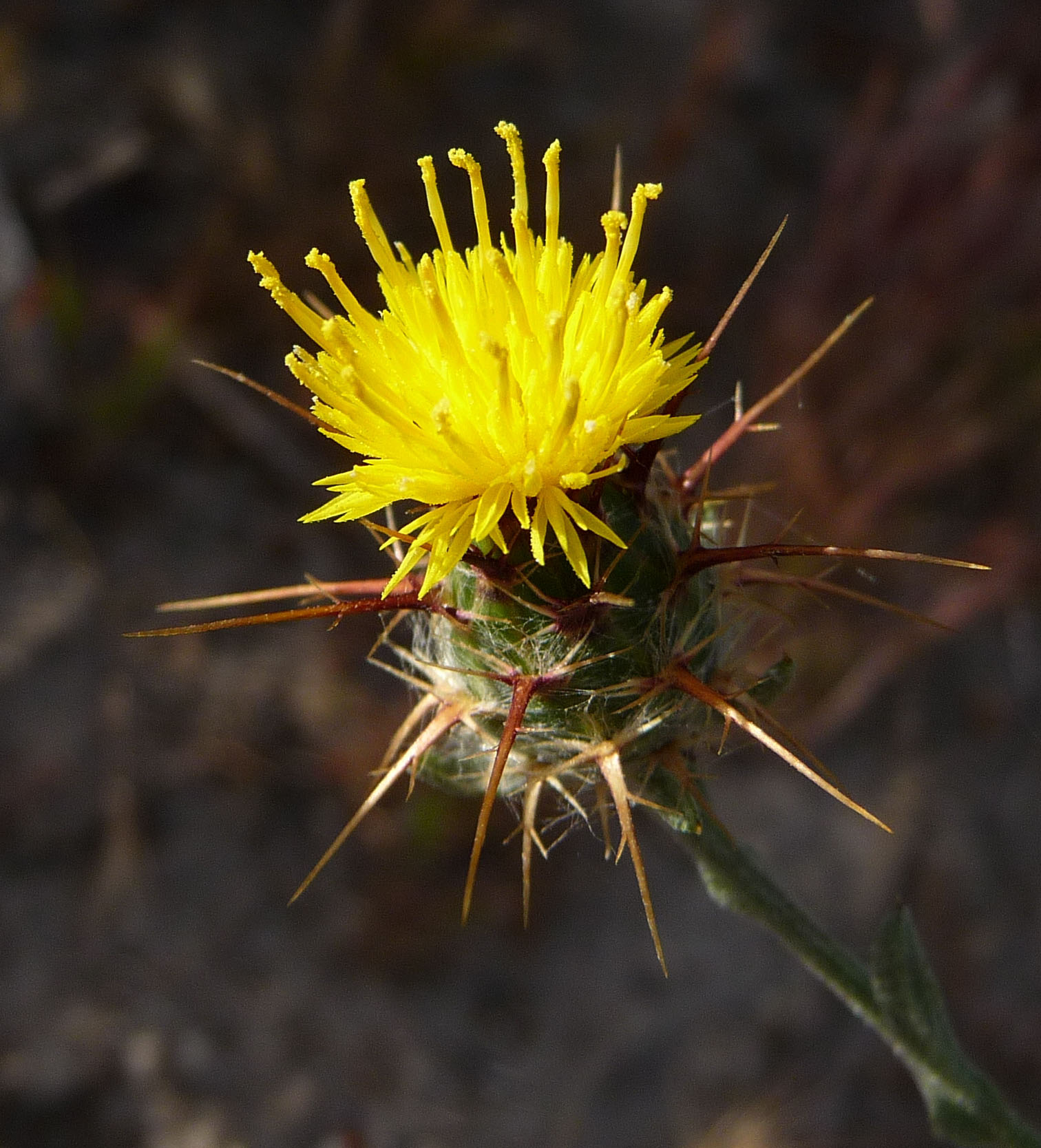 Centaurea melitensis, growing in Southern California.